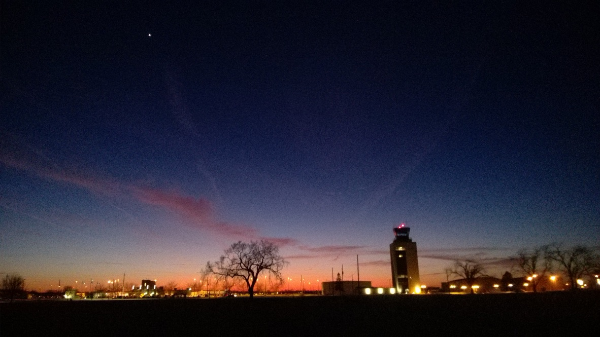 Sioux City Airport (KSUX) Col. Bud Day Field Sunset